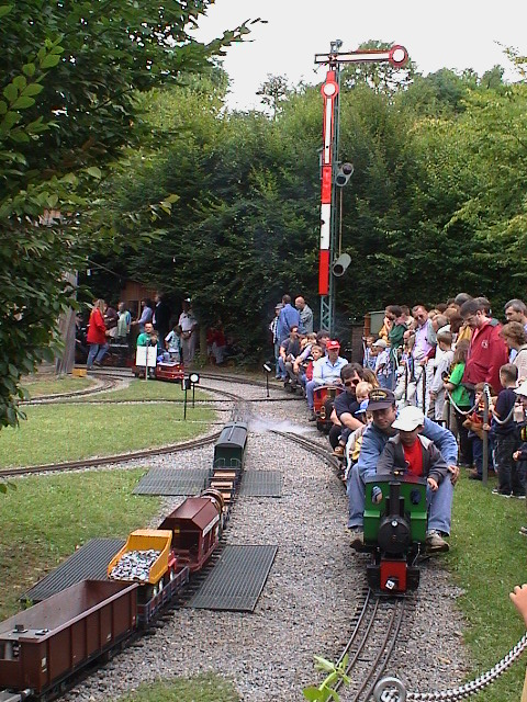 Garden railway in the parc Sommerhofen-Park in Sindelfingen, Germany